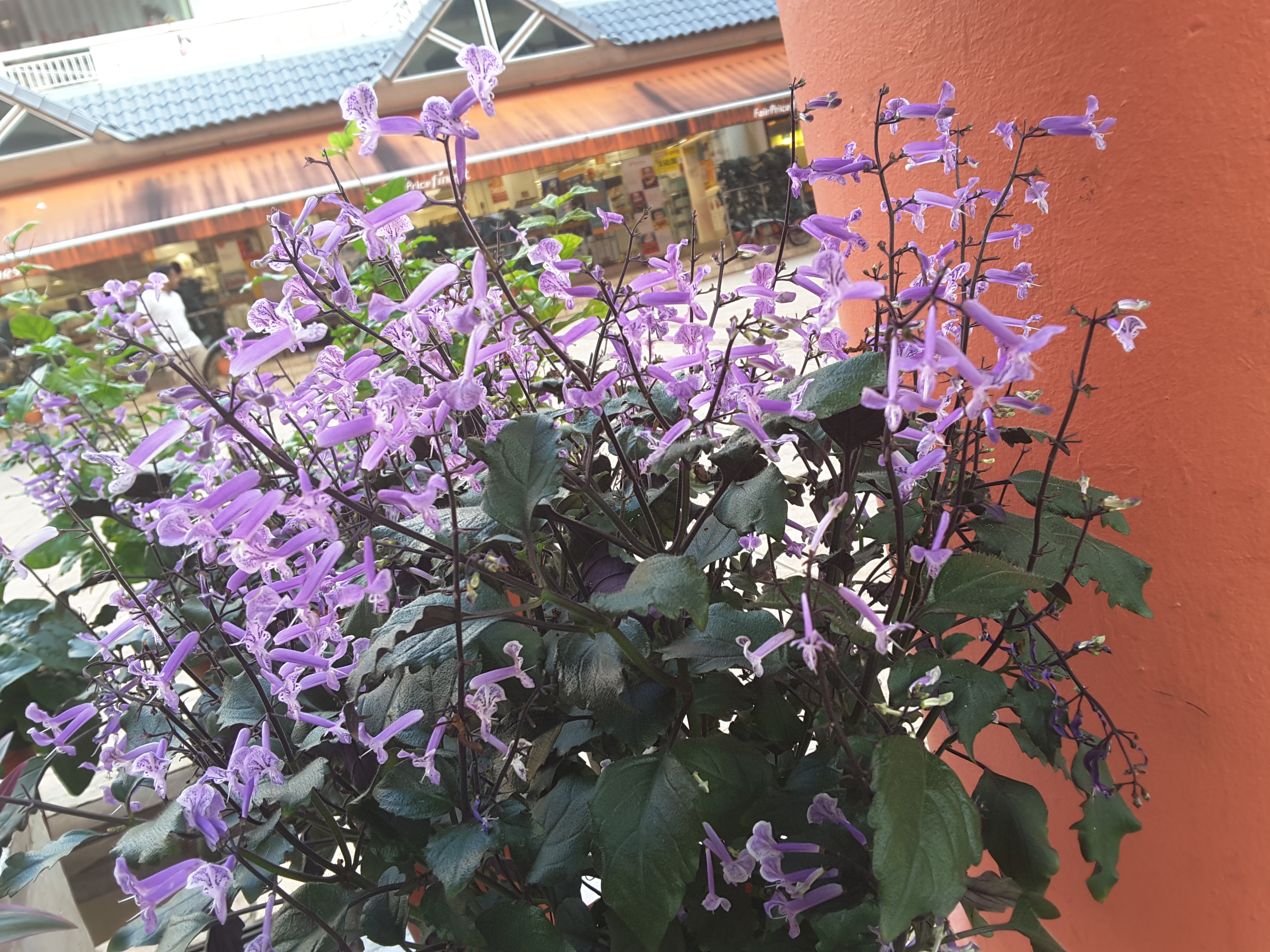 This is a type of lavender commonly known as Malaysian Lavander found around South East Asia.